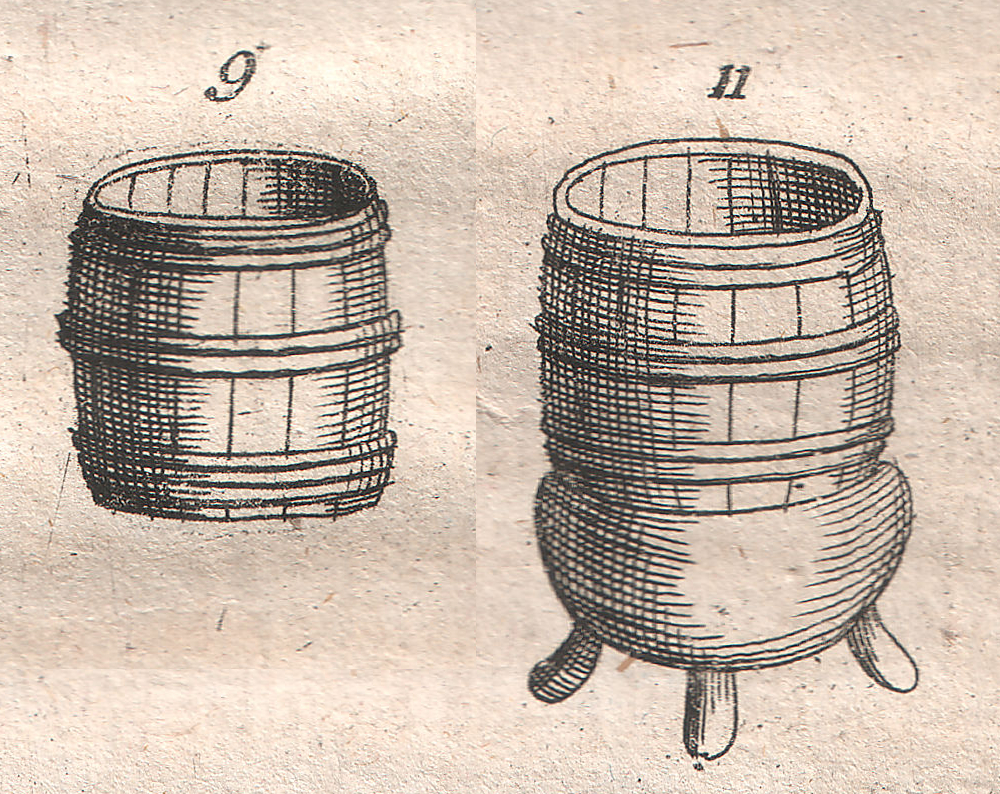 The Furrier